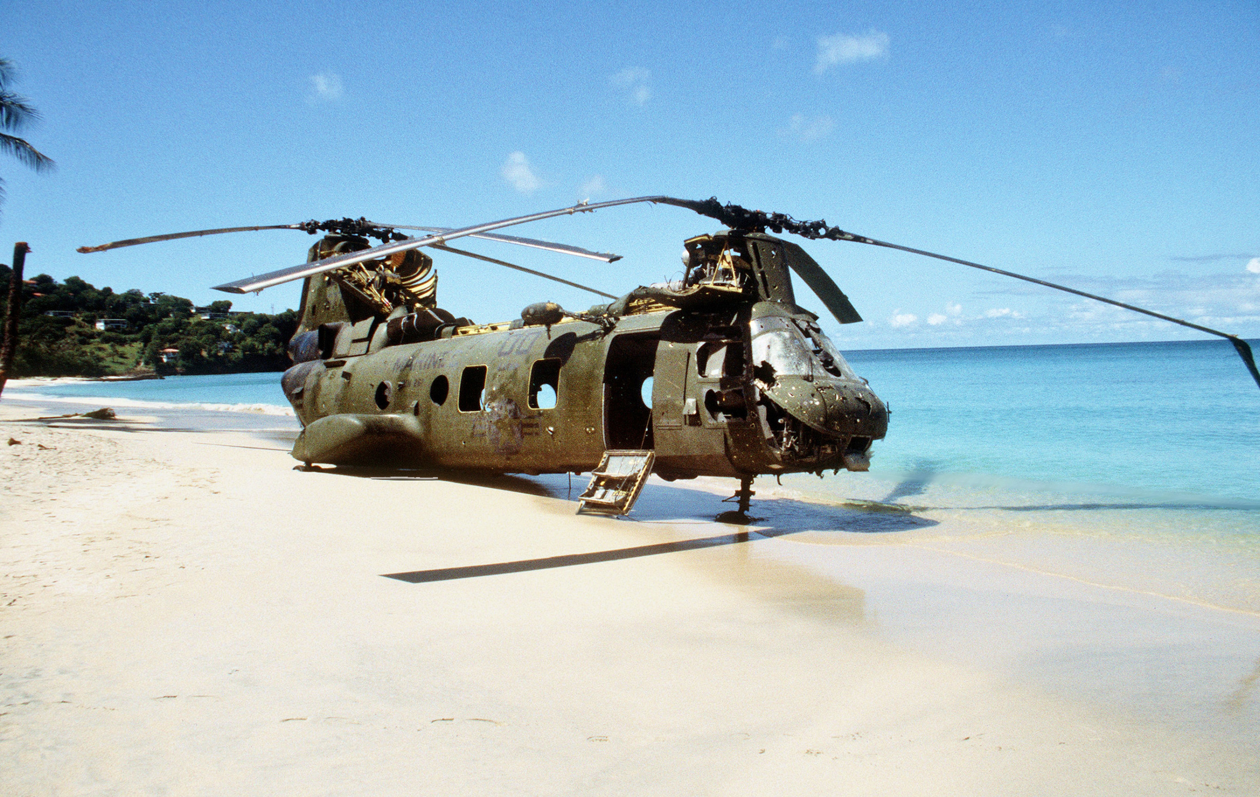 A U.S. Marine Corps Boeing CH-46F Sea Knight helicopter (Buno 157711, c/n 2610) Marine Medium Helicopter Transport Squadron HMM-261 Raging Bulls shot down by anti-aircraft fire on 25 October 1983 during Operation Urgent Fury on Grenada.